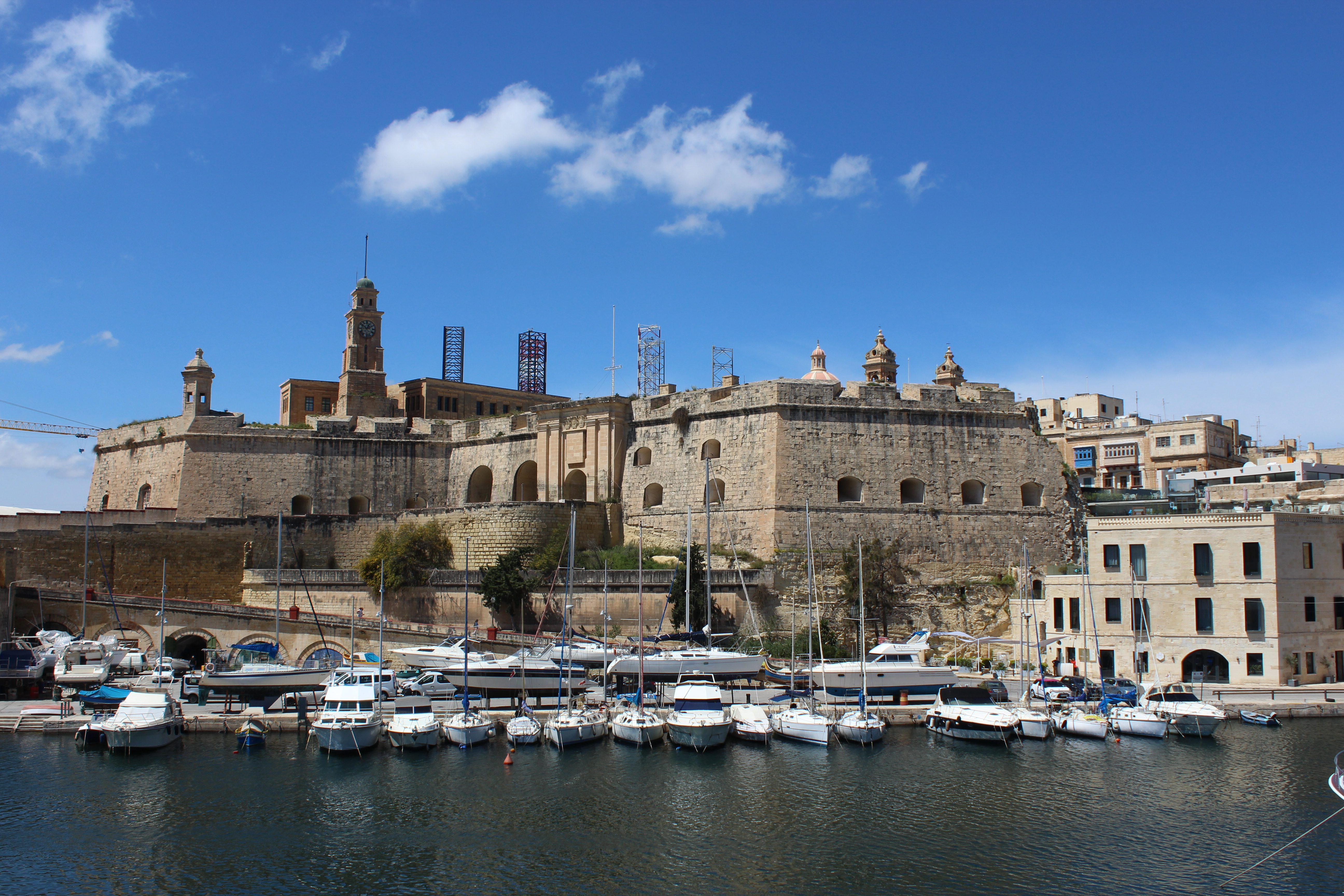 Watch from Vittoriosa to the northern city gate of Senglea